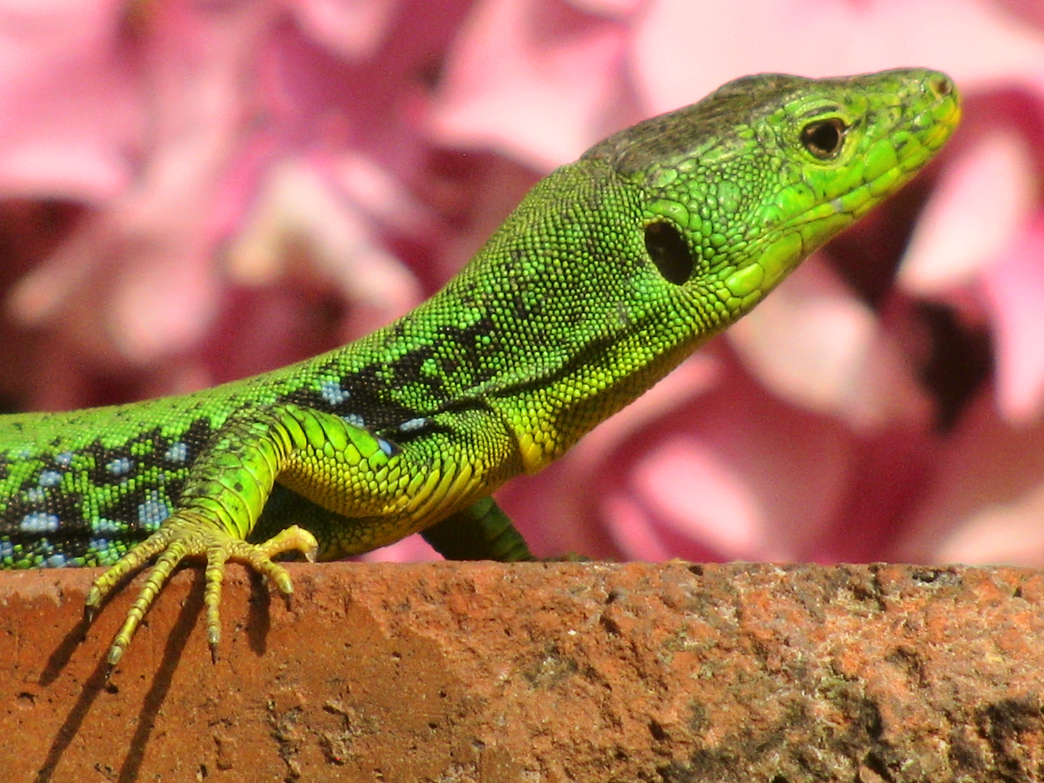 Darevskia rudis, Туапсе 2011 (0017)